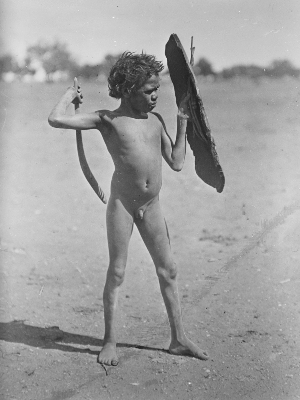 Arrernte boy holding toy shield, Alberga River, South Australia 1920–24